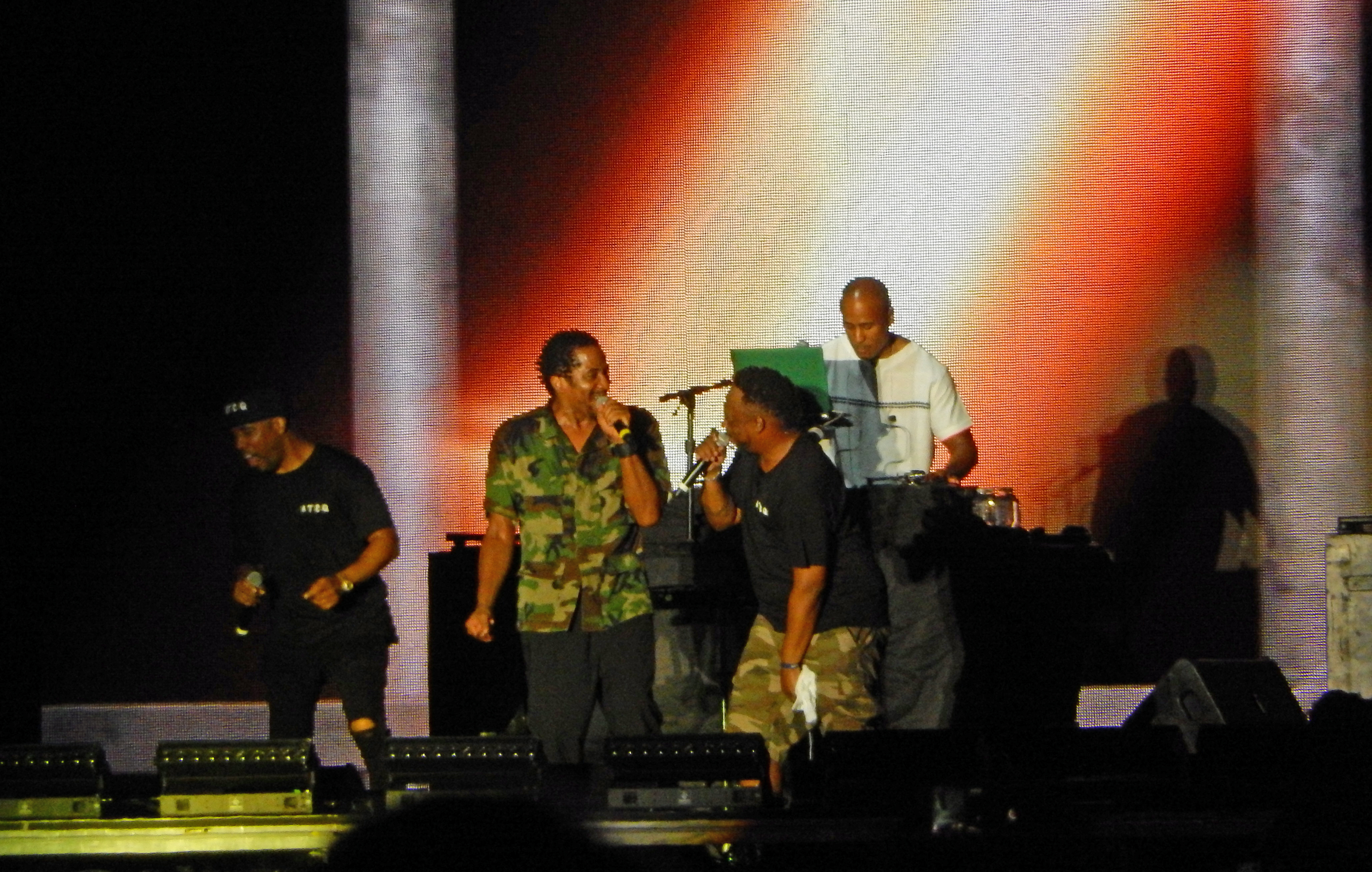 A Tribe Called Quest @ Pitchfork, Chicago, 7/15/2017